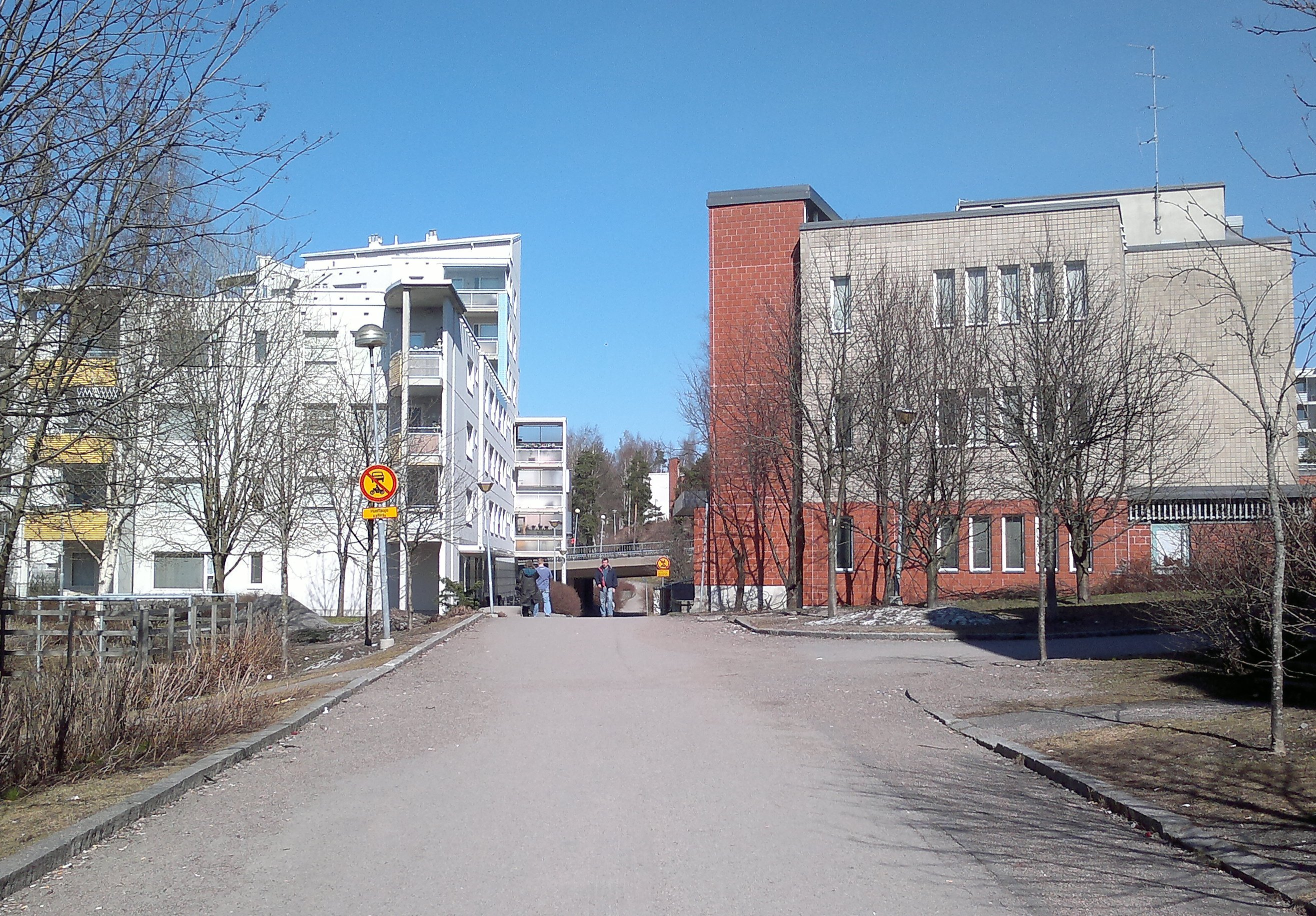 Länsimäki district in Vantaa, Finland